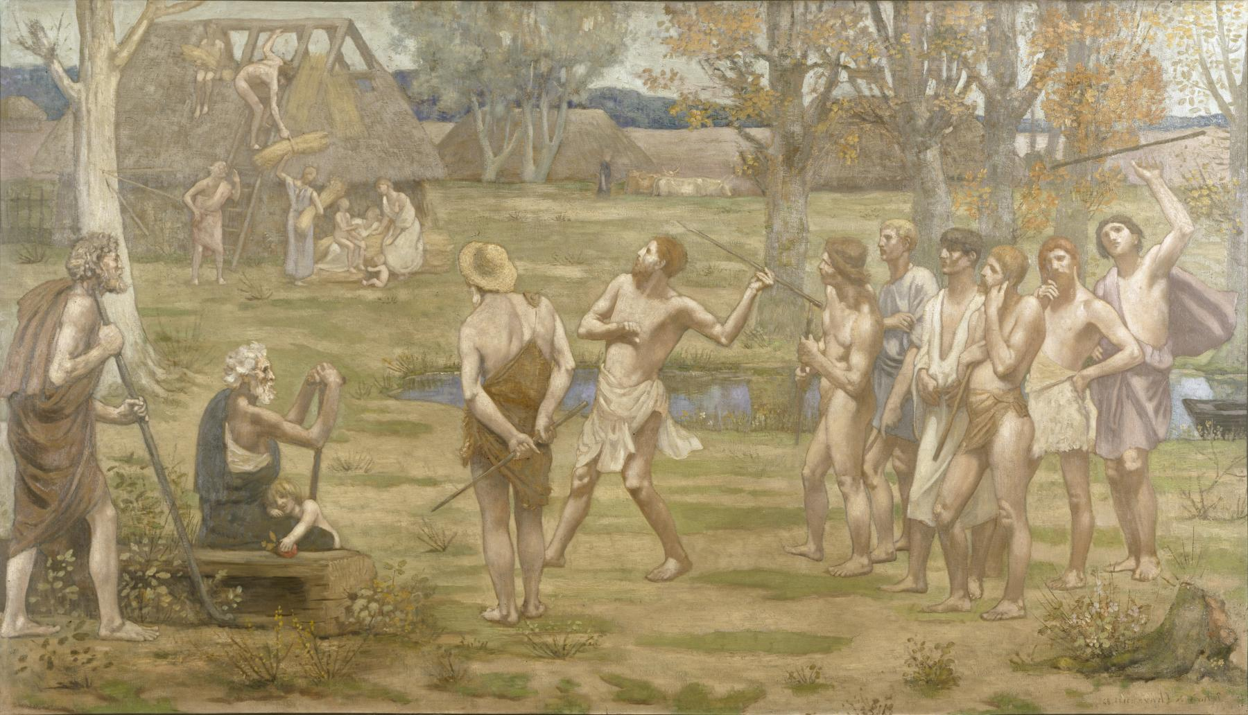 In the late 19th century, Puvis de Chavannes was an innovative and influential figure, working in a style that combined aspects of Romanticism, Academicism, and Symbolism. He was particularly known and admired for his mural paintings, which graced the walls of public and religious institutions from the Panthéon in Paris to the Boston Public Library. This painting replicates the central portion of a mural, Ludus Pro Patria (Patriotic Games), which was installed in the stairwell of the Musée de Picardie in Amiens, France. It recalls a "Golden Age" in the history of the province of Picardy and is devoted to the themes of work, family, and country.